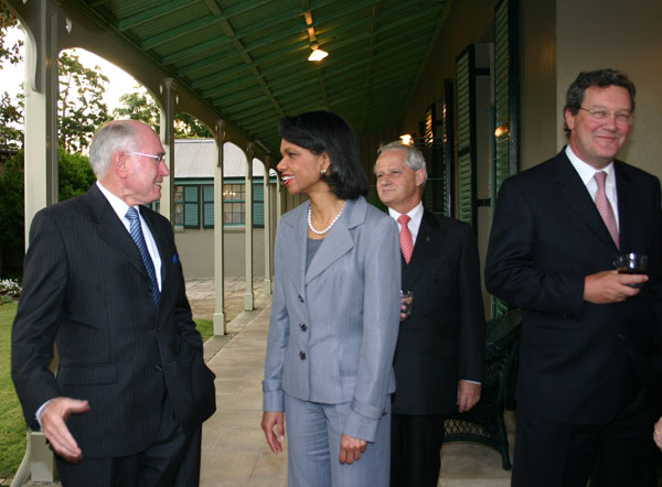 US State Secretary Rice joined by Prime Minister of Australia, John Howard along with Attorney General of Australia, Philip Ruddock and Foreign Minister of Australia, Alexander Downer at Kirribilli House in Sydney